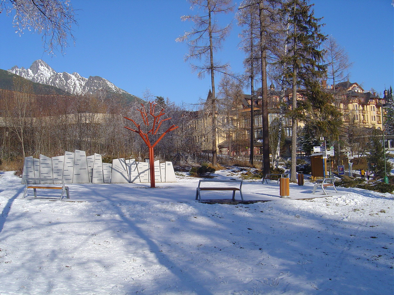 Monument of donors for Town of Vysoké Tatry after windstorm in November 19, 2004, Starý Smokovec